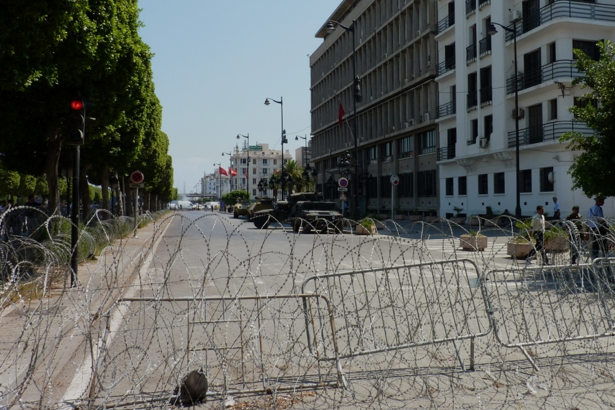 Avenue Habib Bourguiba near ministry of interior in Tunis in August 2011 after Revolution